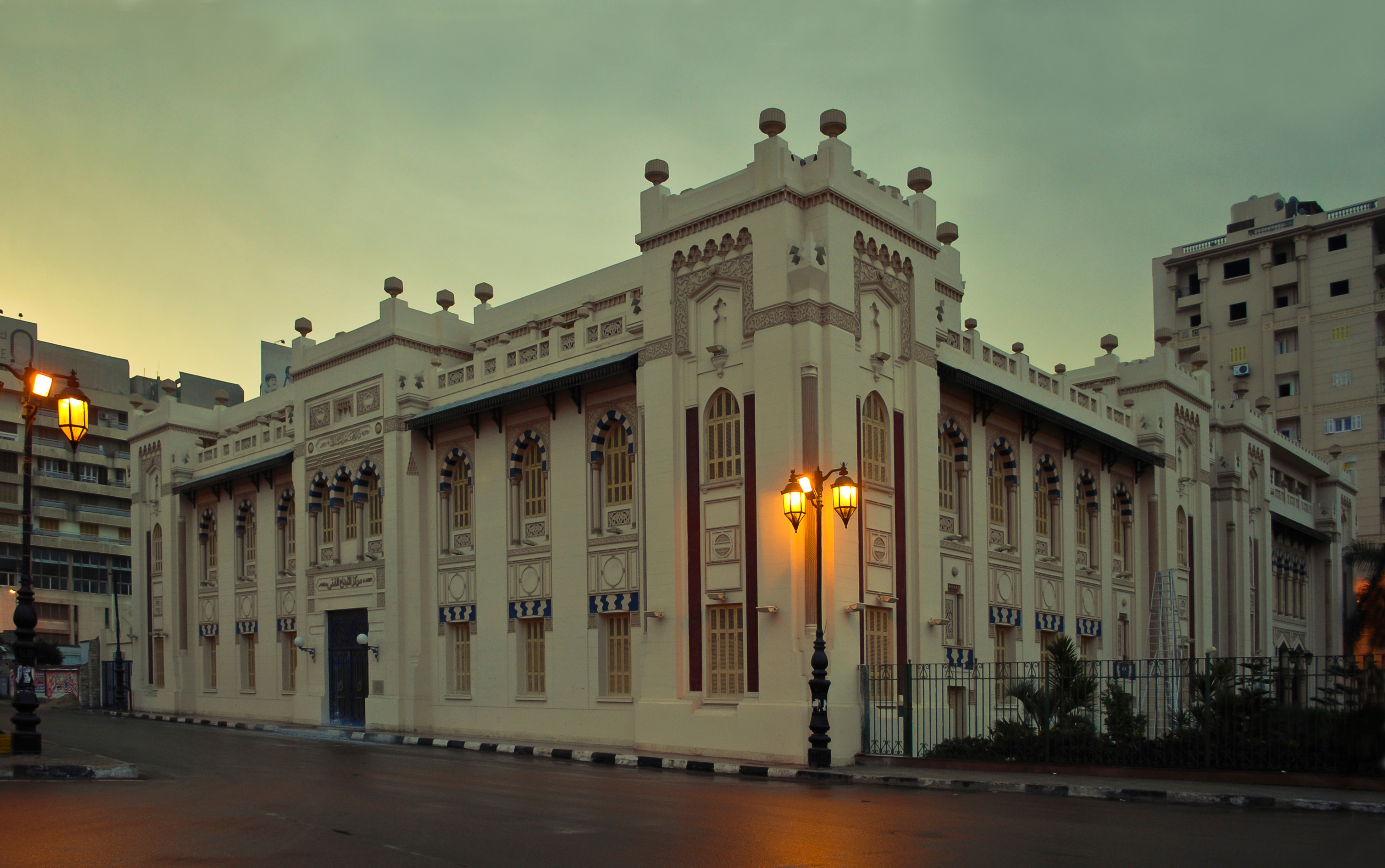 Damanhur Opera house, Alexandria.